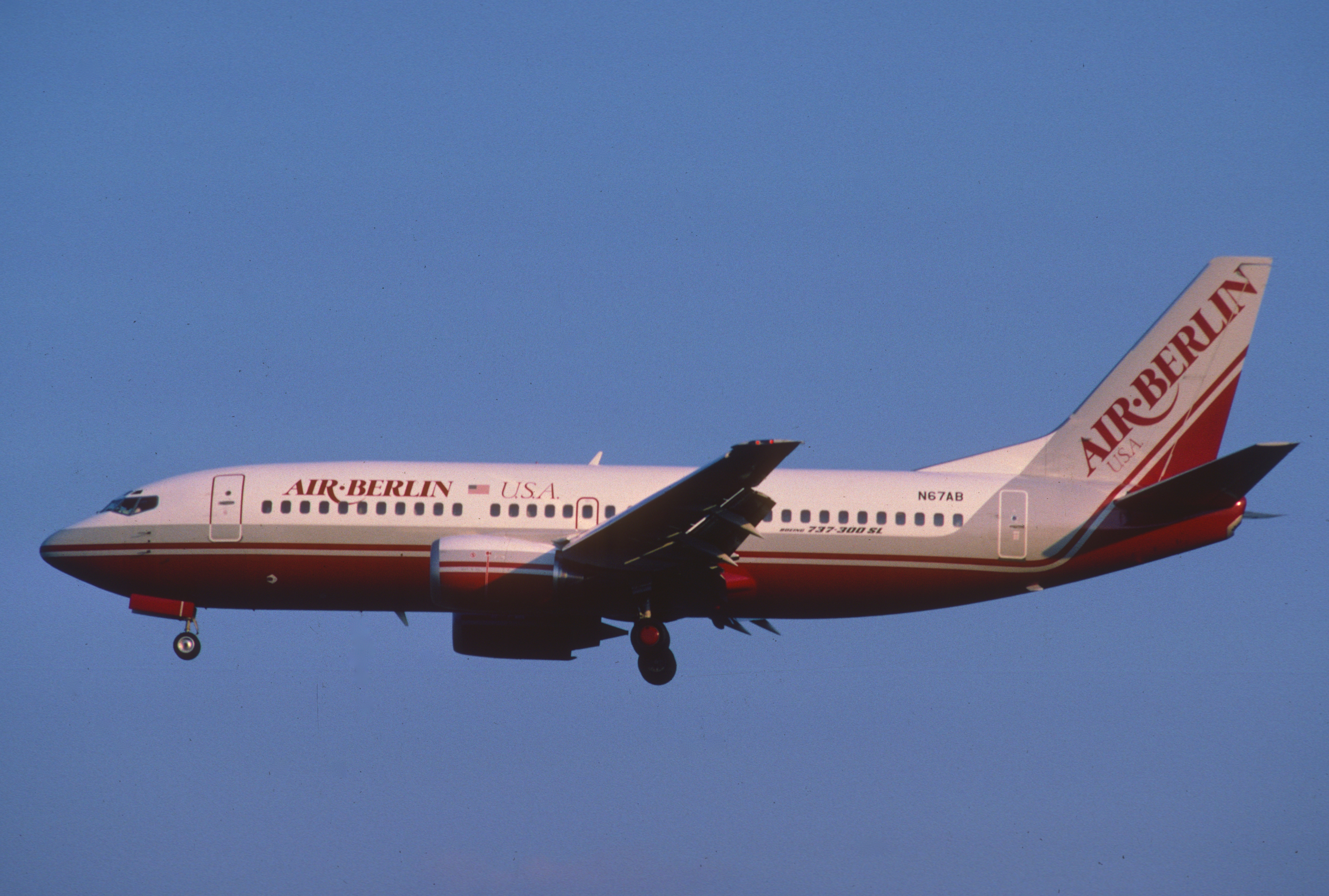 First flight: March 27, 1986... 11/04/1986 Air Berlin N67AB 09/11/1990 British Airways N67AB 01/01/1991 Air Berlin N67AB 20/12/1991 Southwest Airlines N682SW